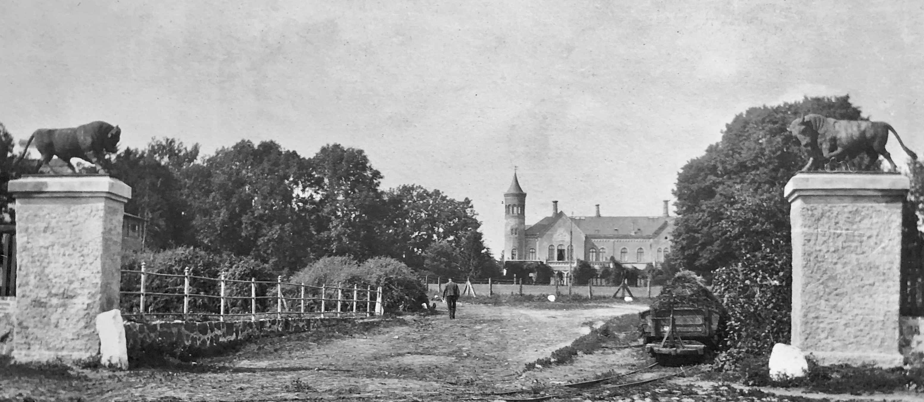 Alte Gutseinfahrt. Sockel mit Rindern. Weg von Liepen über das Dorf zum Gut. Im Hintergrund das Gutshaus